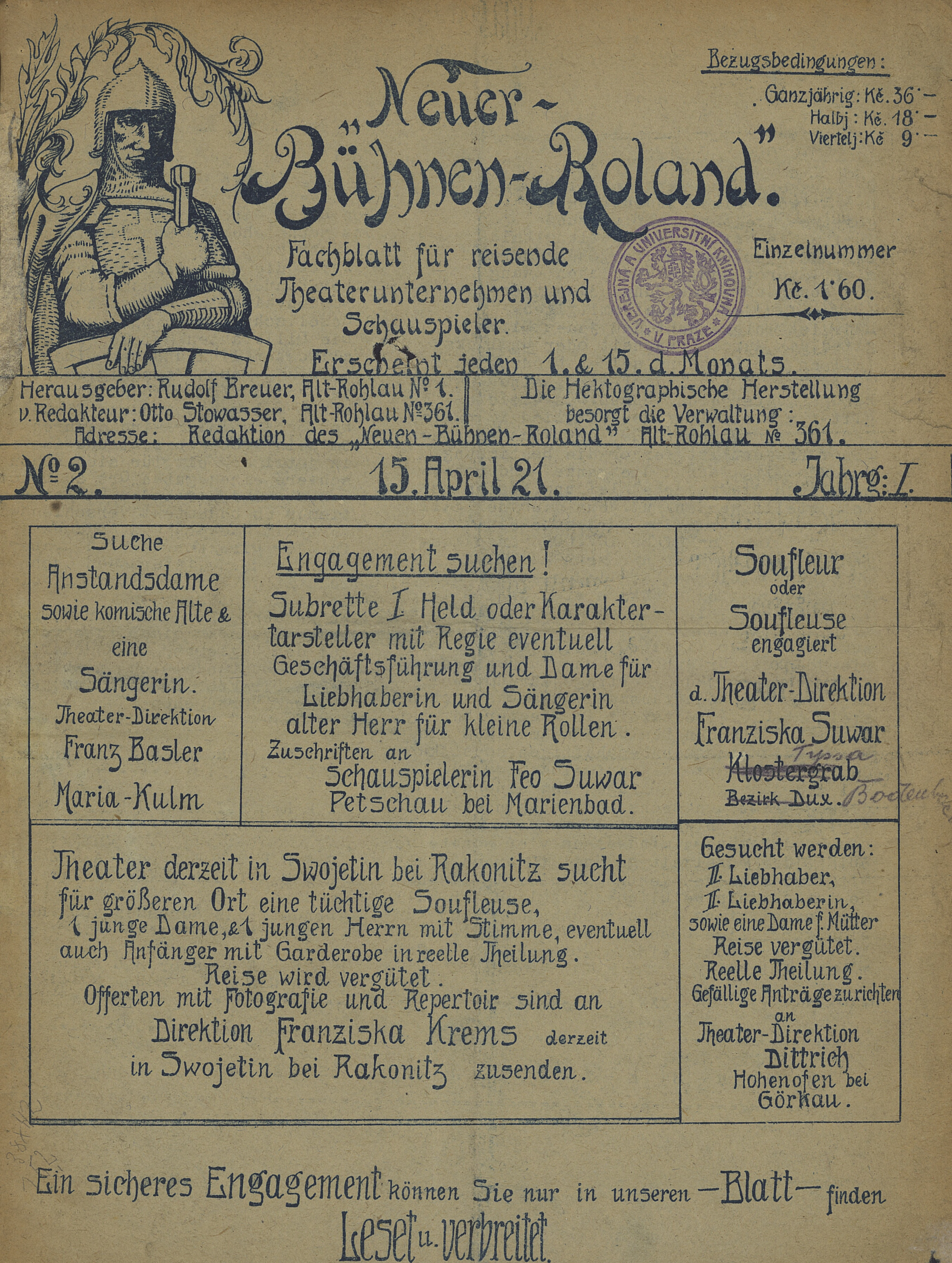 Cover of magazine Neuer Bühnen-Roland (no. 2/1921).